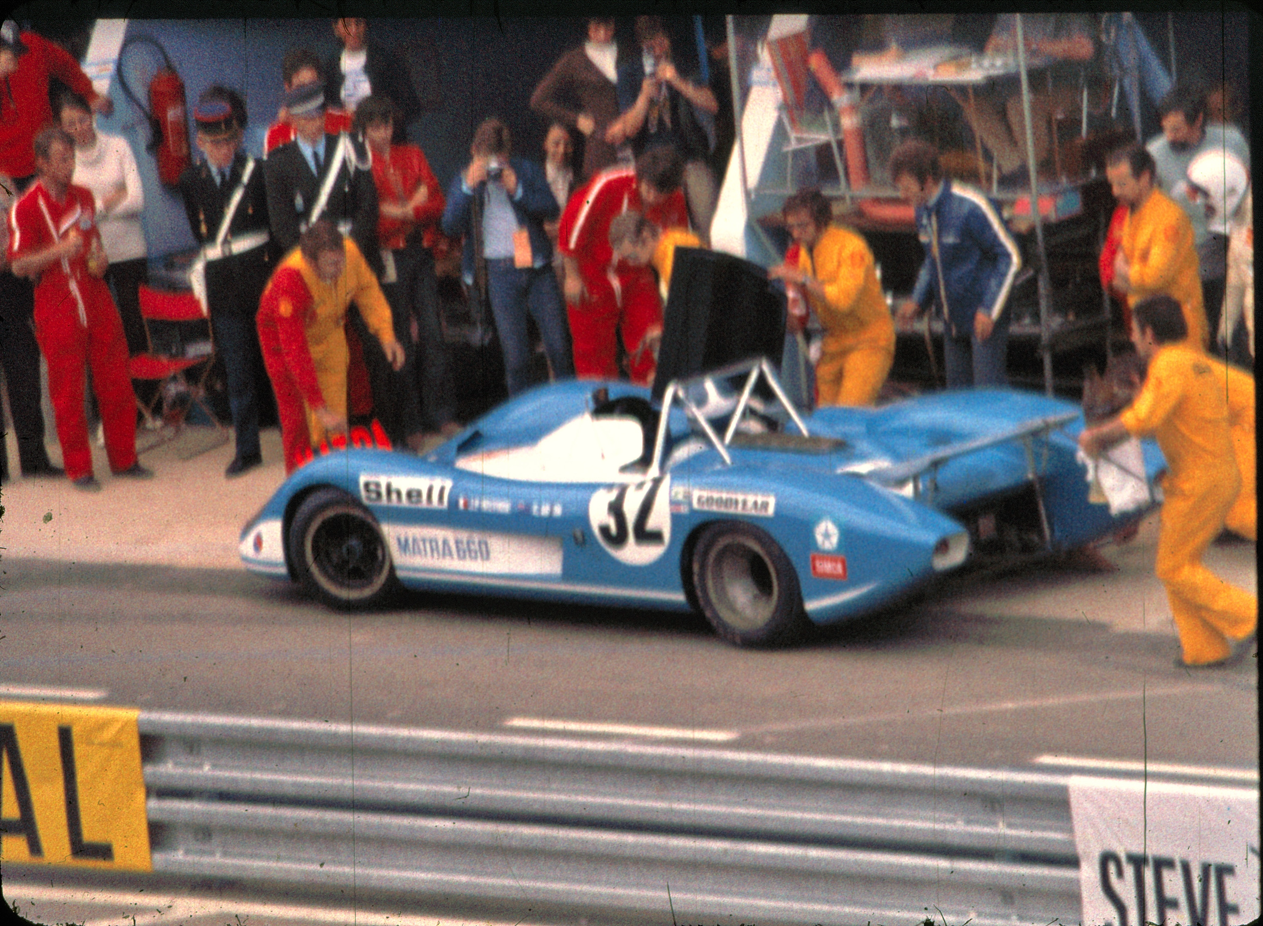 Matra Simca MS 660 N°32 Equipe Matra Technique : Catégorie : SP Moteur : V12 Matra Simca 2993 cm3 Pneus : Goodyear Pilotes : Jean Pierre Beltoise Chris Amon